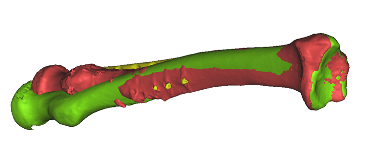 Computer Assisted Radius Osteotomy: Part 1